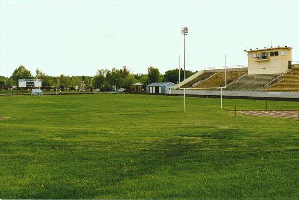 Looking southwest across the football field of Memorial Stadium in August 1988. The stadium is on the campus of Great Falls High Schoo, which is located in Great Falls, Montana, in the United States.